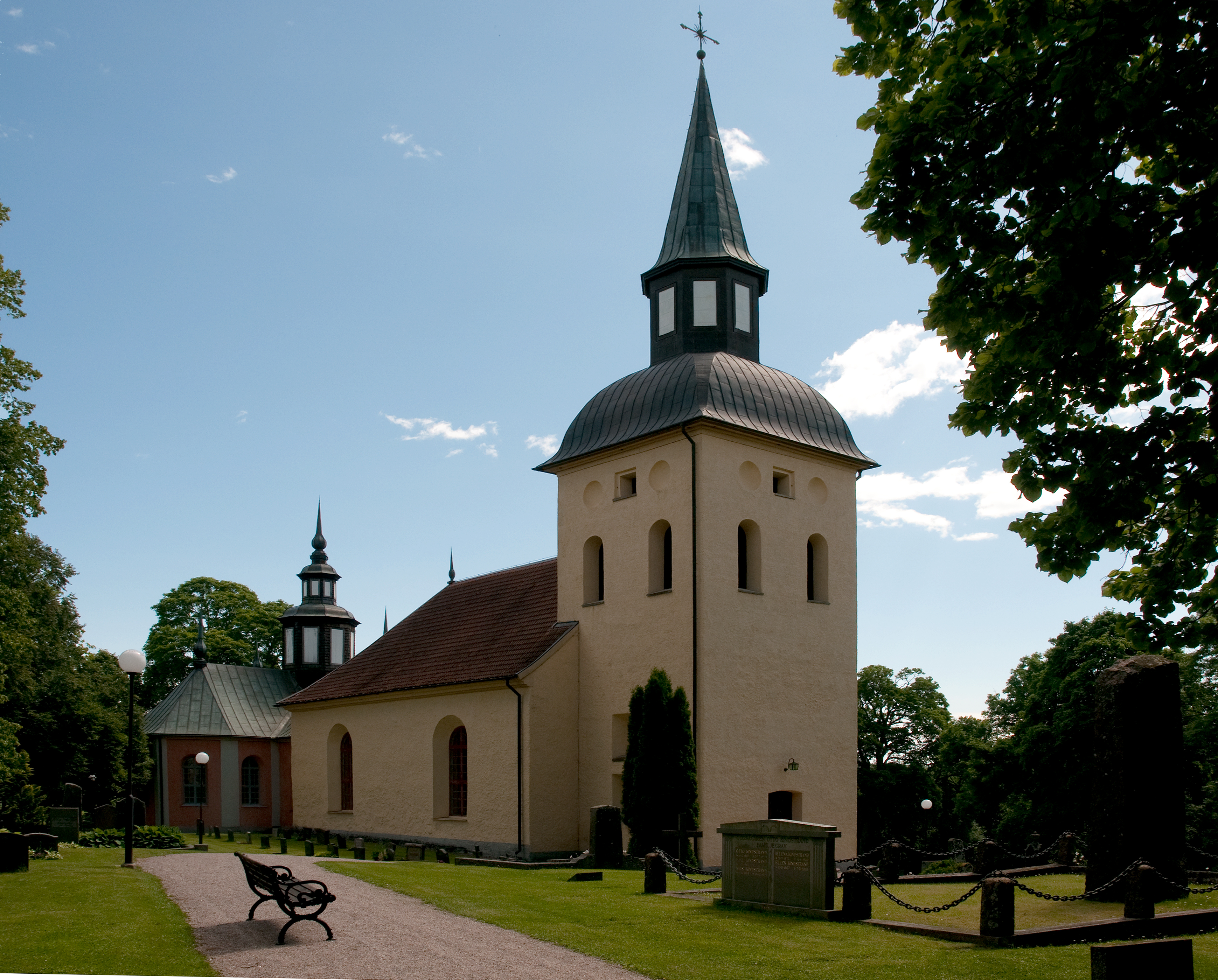 Ludgo church